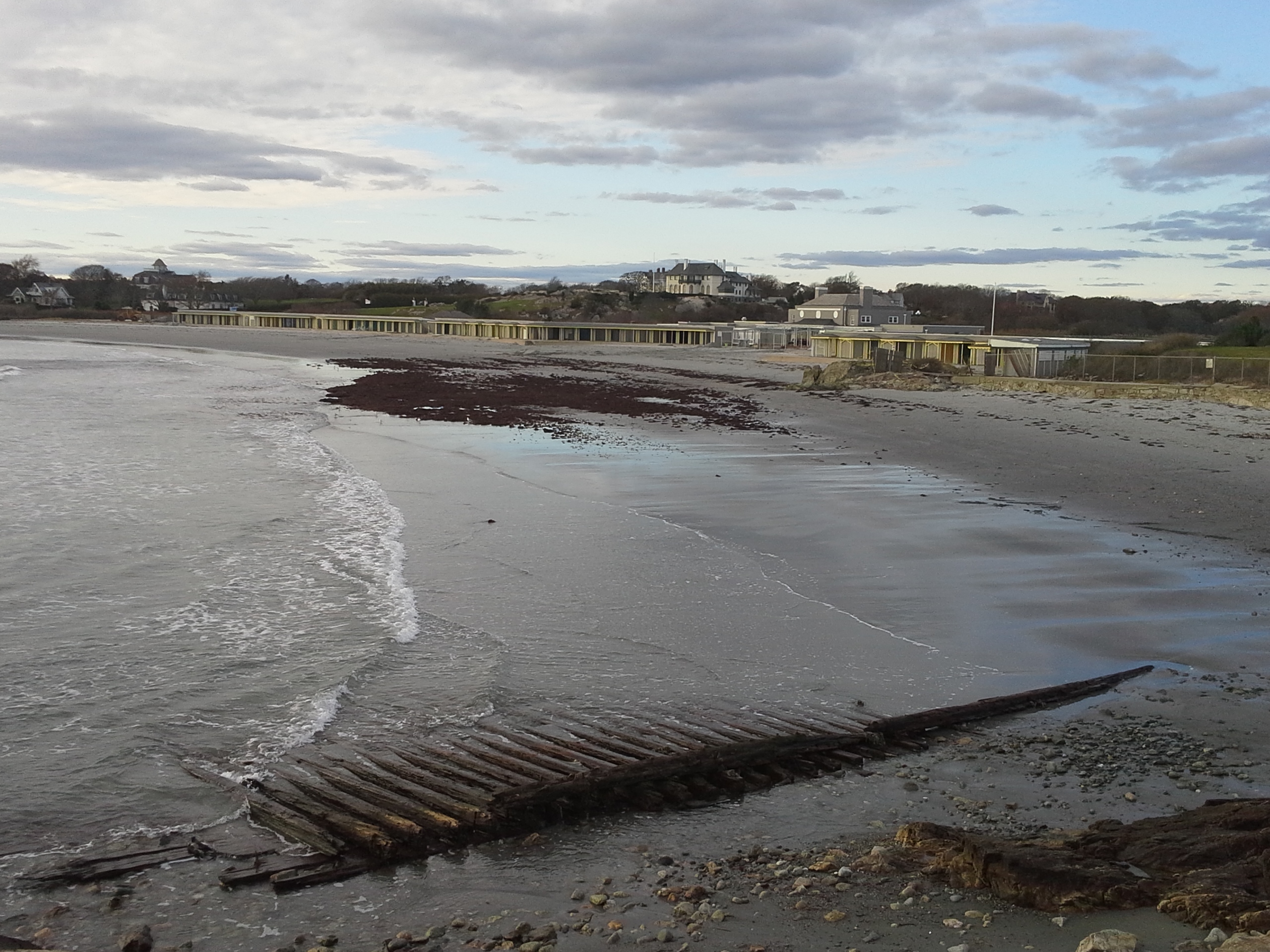 Bailey's Beach in Newport Rhode Island RI after Hurricane Sandy. Off Ocean Drive.